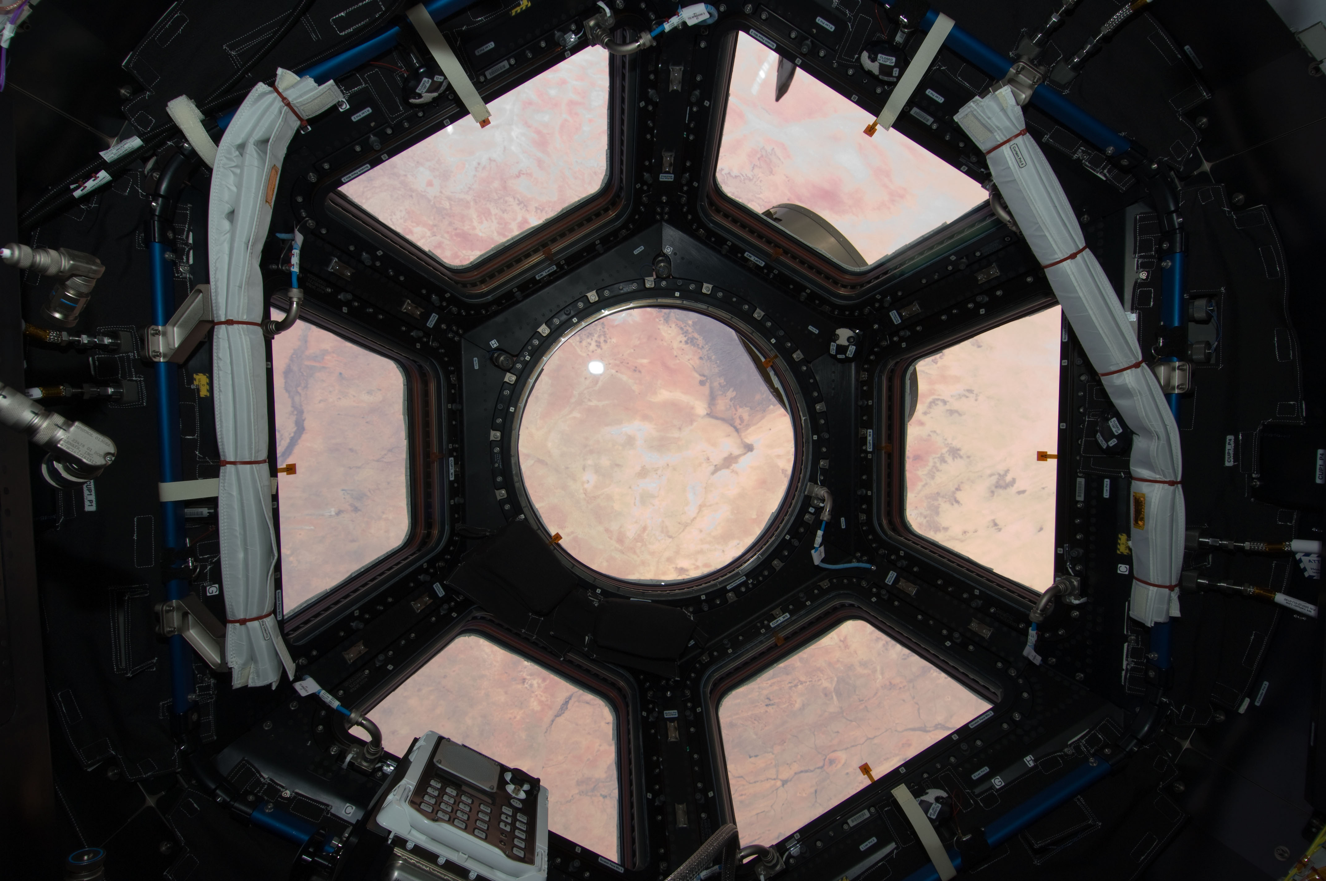 International space station module Cupola with its protective shutters open. NASA description from source: ISS022-E-066972 (17 Feb. 2010) --- This image is the first taken through a first of its kind "bay window" on the International Space Station, the seven-windowed Cupola. The image shows the Sahara Desert spread out through the array of windows. The Cupola will house controls for the station robotics and will be a location where crew members can operate the robotic arms and monitor other exterior activities.